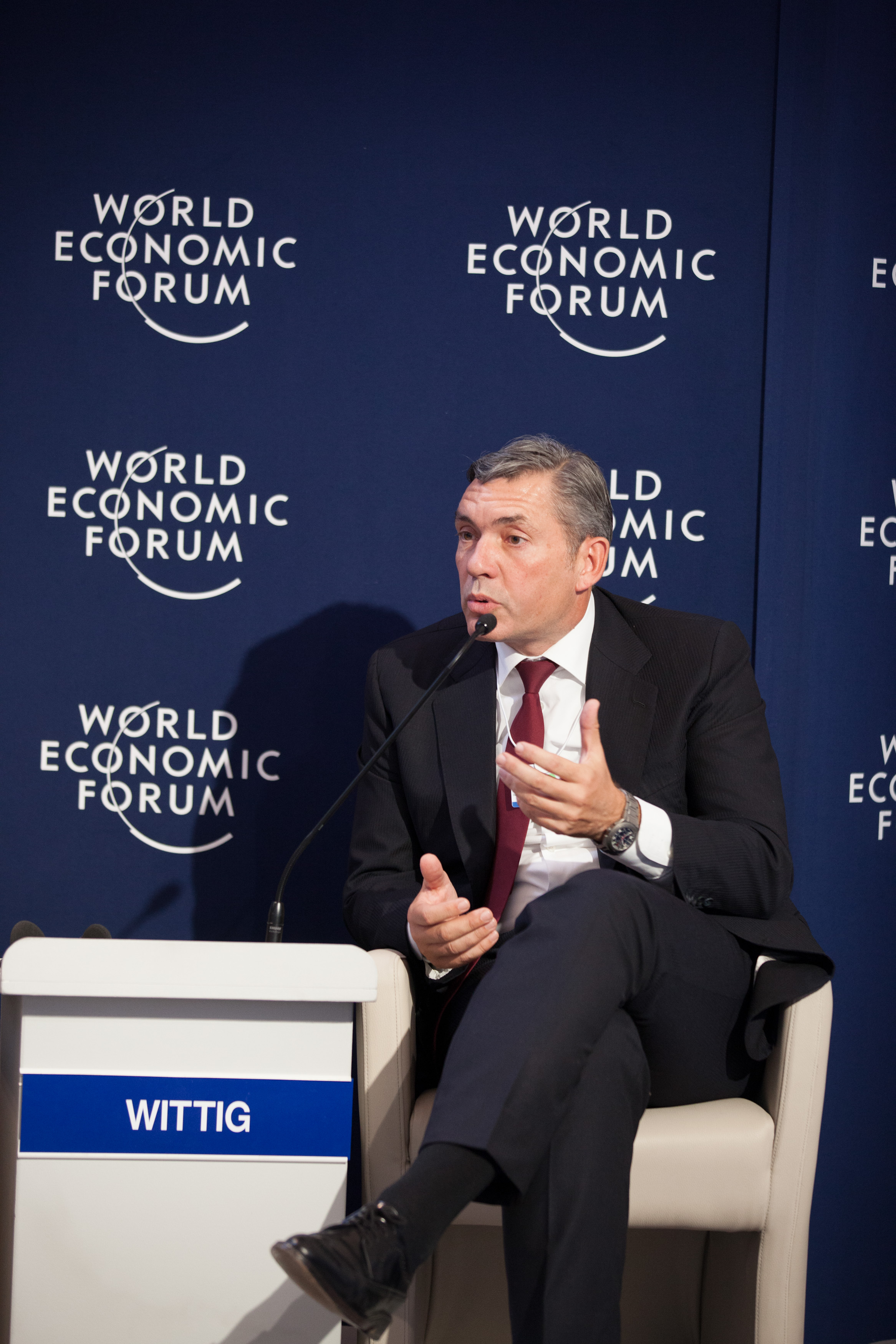 Martin Wittig, Chief Executive Officer, Roland Berger Strategy Consultants, Switzerla, at the Rebuilding Europe’s Competitiveness Meeting, Villa Madama, Rome 30th October 2012